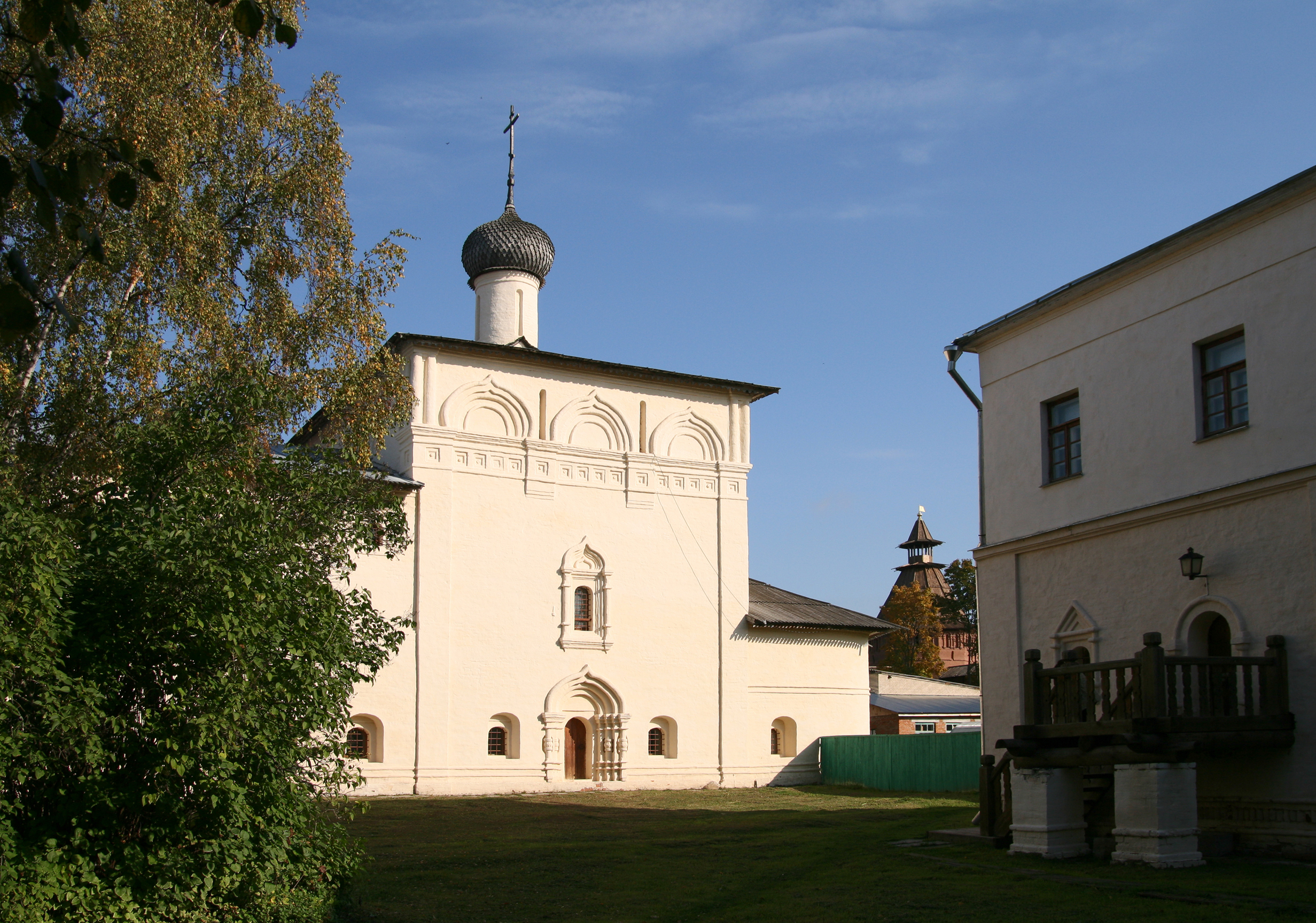 St. Nicholas Church of Spaso-Yevfimiev Monastery, 1669